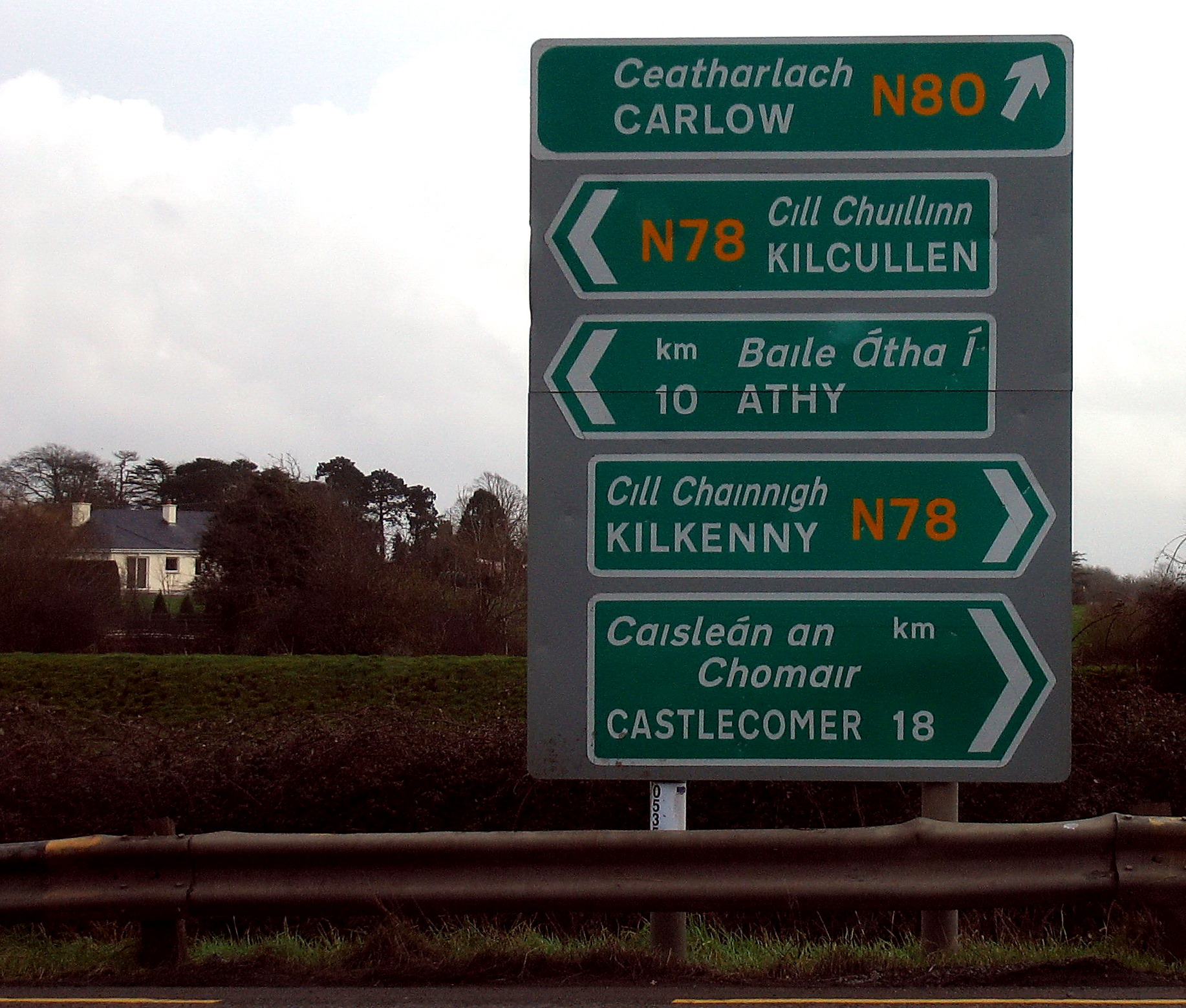 The N80 National secondary road crosses the N78 at a staggered junction.